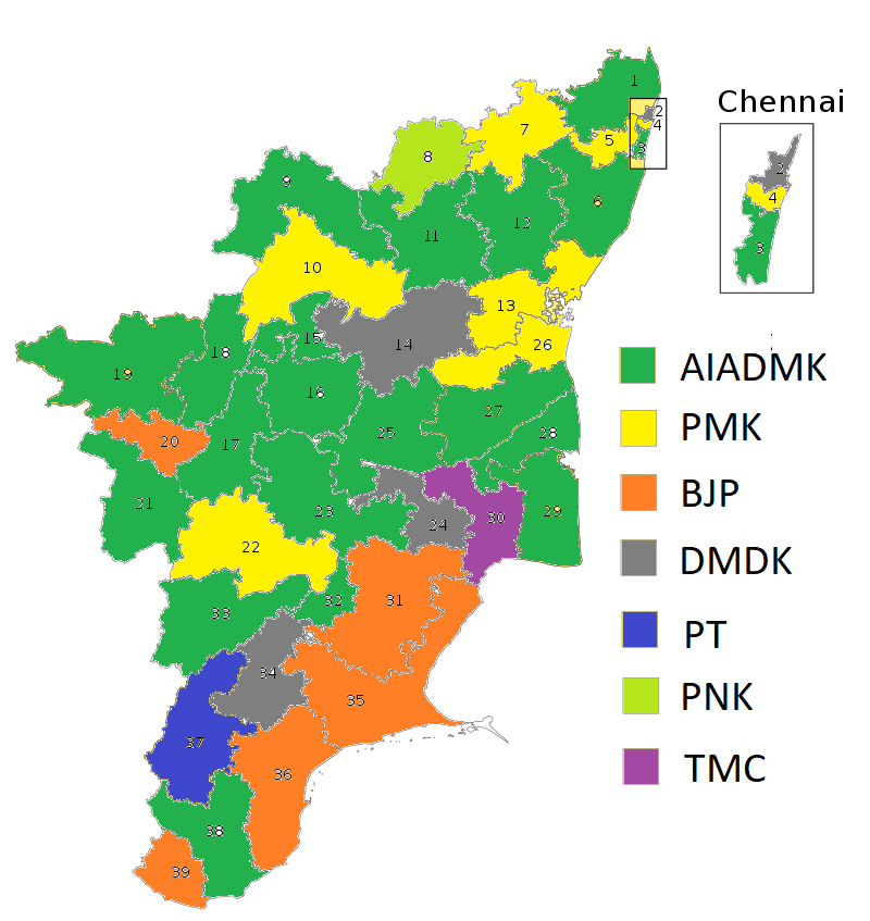 Seat Sharing among various constituents of NAD in Tamil Nadu